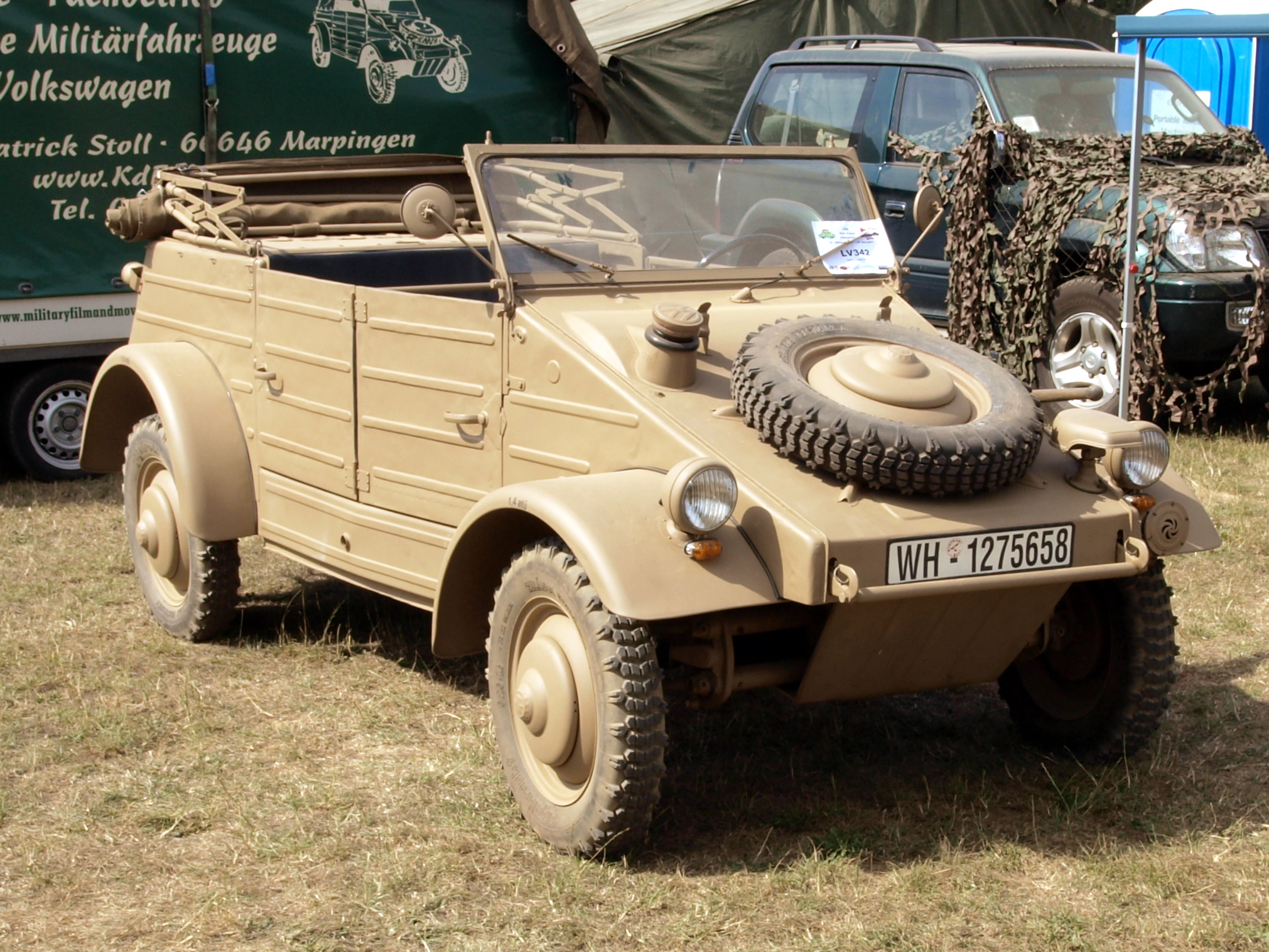 VW Kubelwagen Type 82 (1943) (owner Claude Thill).